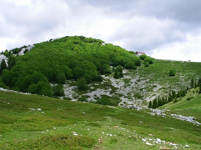 Velebit Mountains, Croatia